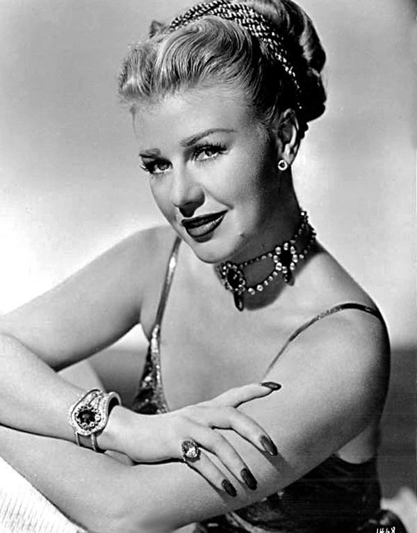 Publicity photo of Ginger Rogers.